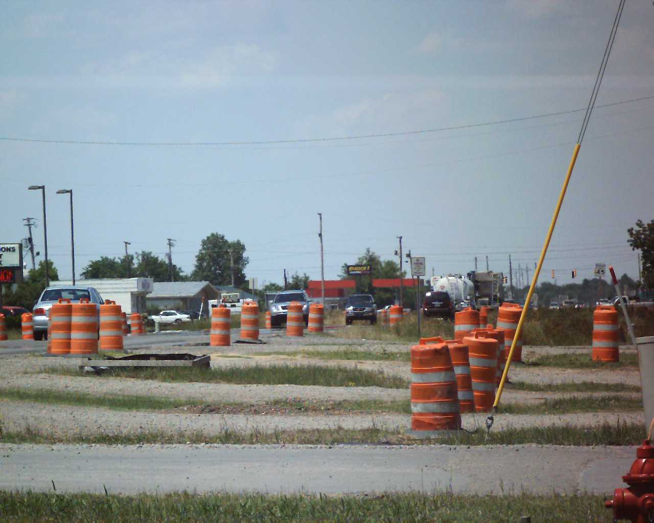 A Picture of US 82, US 65, and US 278 in Lake Village, AR.